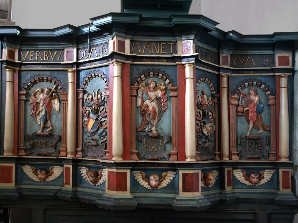 Keitum (Sylt), Slesvic-Holstein (Germany): church, pulpit, photo 2008